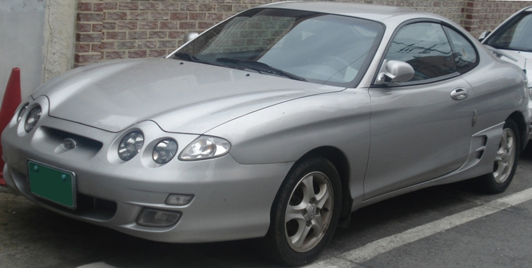 Hyundai Tiburon Turbulence